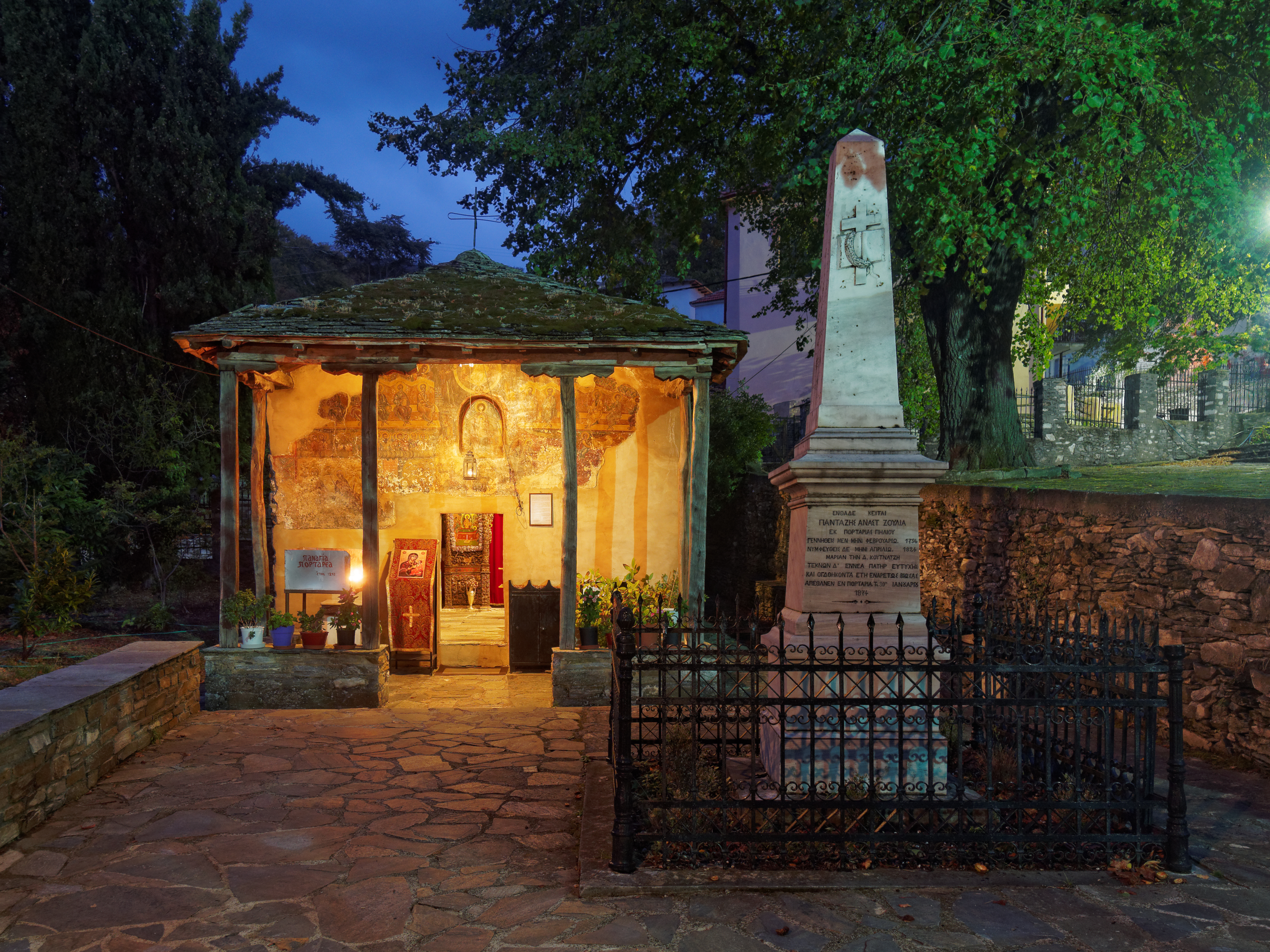 Panagia Portarea and the funerary monument of Pantazis Anast. Zoulia (1794 – 1874).